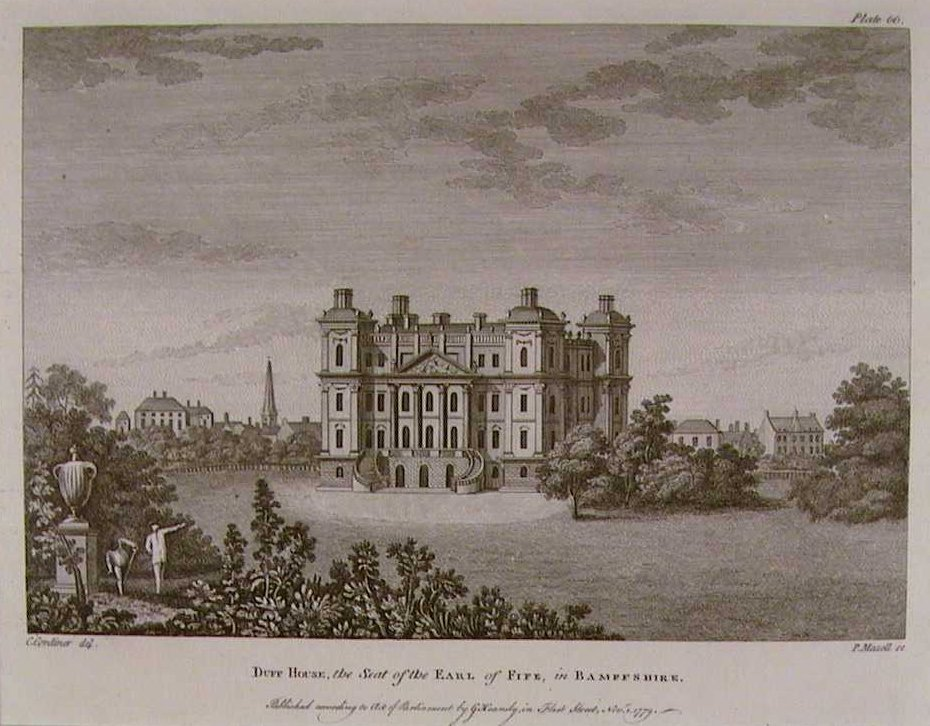 Duff House, the Seat of the Earl of Fife